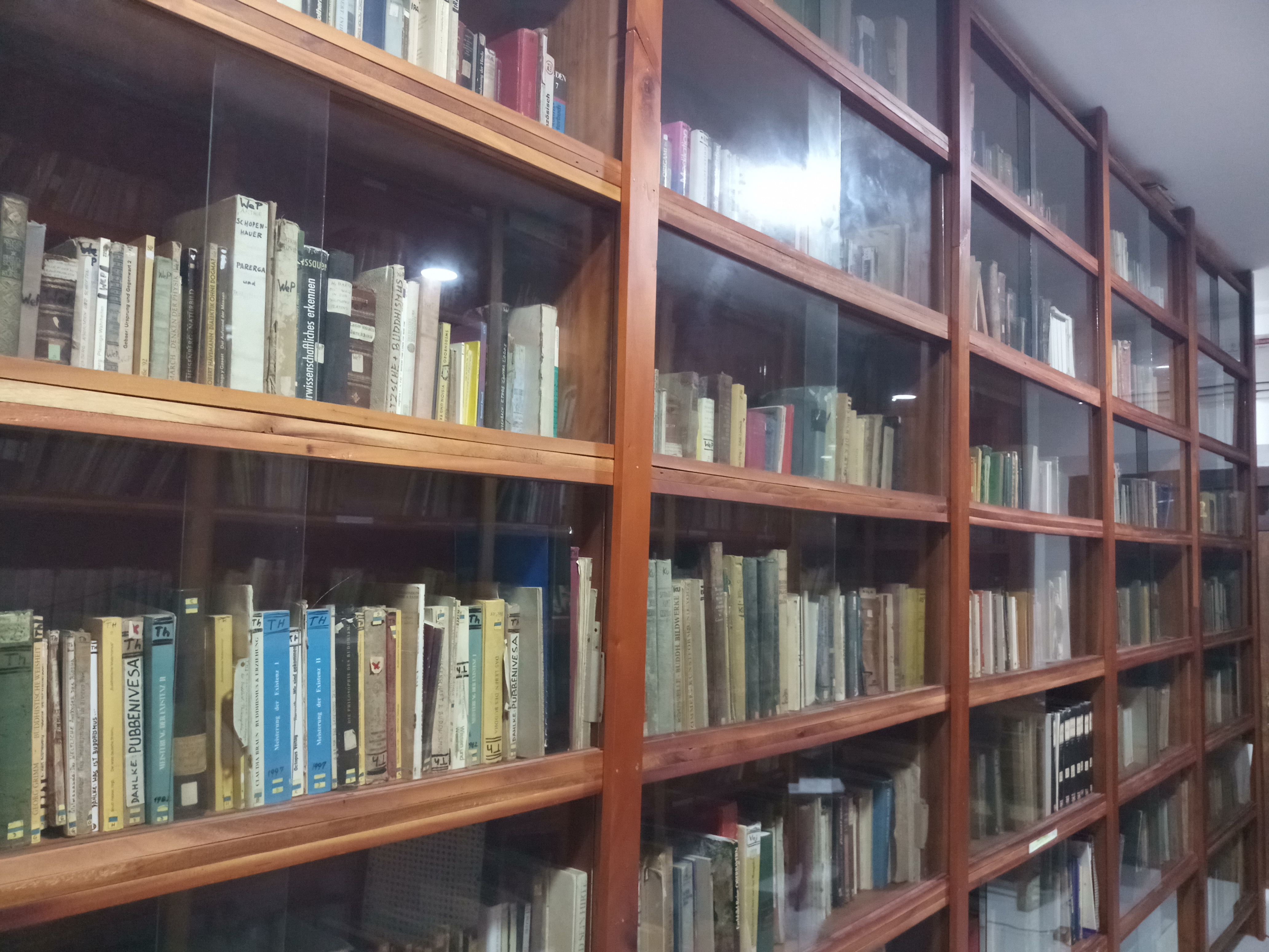 Air-conditioned library